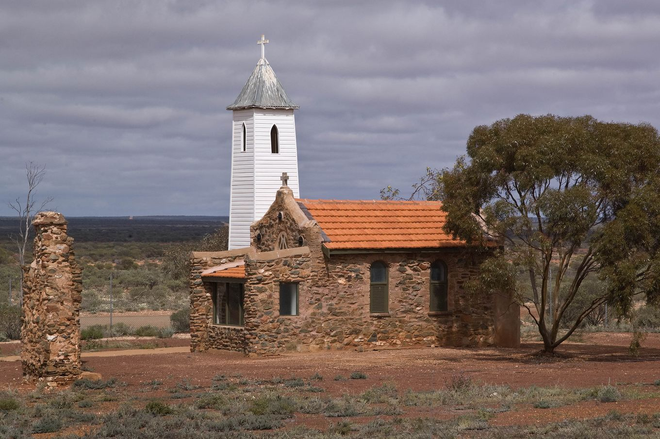 Mgr Hawes, 1922. One of the two chimneys which are all that remains of the timber convent.